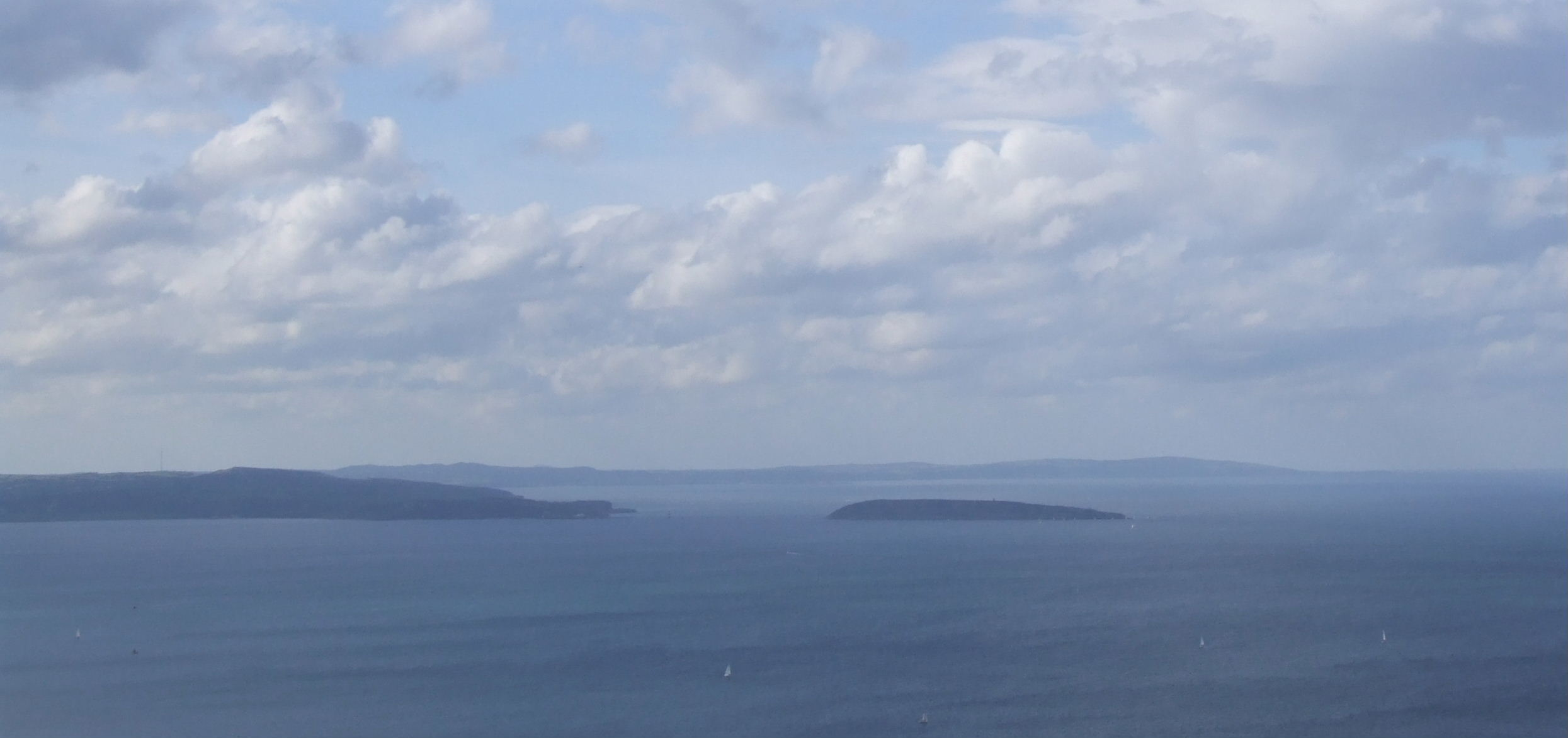 Ynys Seiriol (